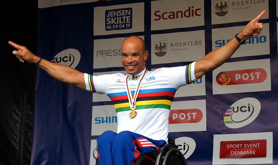 Joel Jeannot, France on the podium after winning 2011 UCI Para-Cycling Road World Championship for Handbikes (Roadrace 61,5 km - class MH3) in Roskilde Denmark